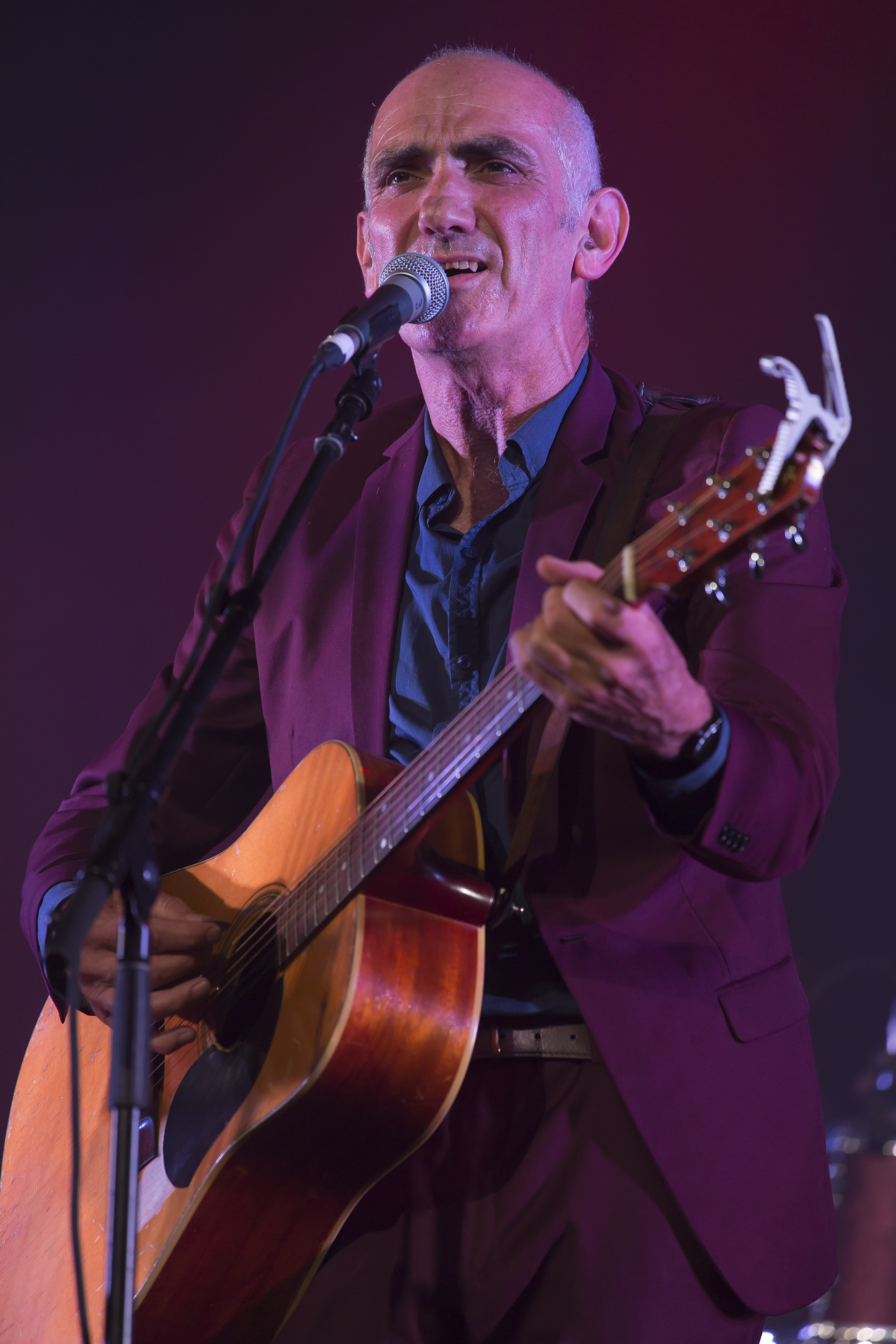 Paul Kelly presents The Merry Soul Sessions Byron Bay Bluesfest, 2015